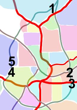 Map of Atlanta showing Belt Line and the 5 discontinuities in the track. Traced by me with Inkscape over source map.